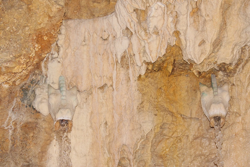 The Cave Bath inside